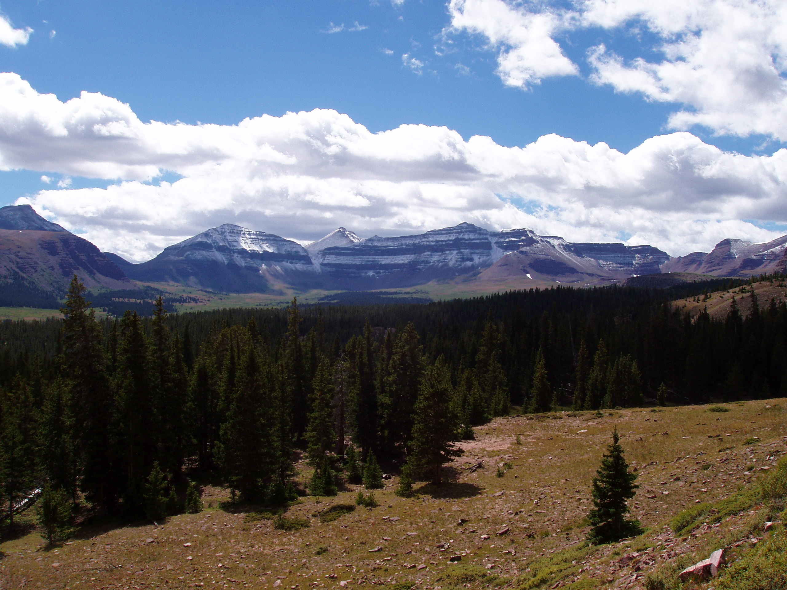 Looking south toward Kings Peak from above the Henry's Fork Basin. Taken by Hyrum K. Wright on August 25, 2004.